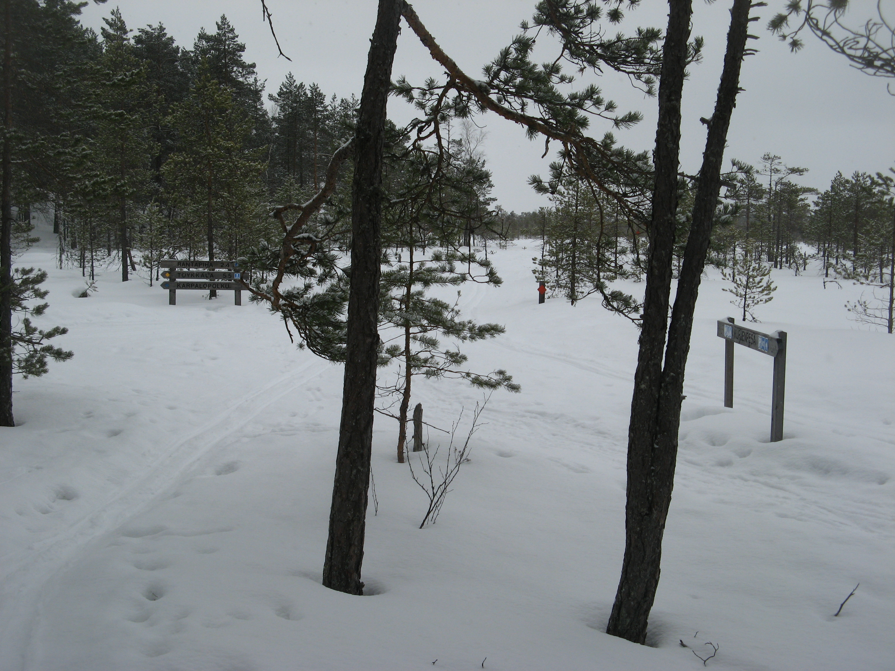 Trail crossing. View to the south from Kuhankuono in Kurjenrahka National Park. Middle march 2010. Kuhankuono is reachable with wheelchair, the trails further are not. Trees to the right and in the centre are small due to the wet terrain.